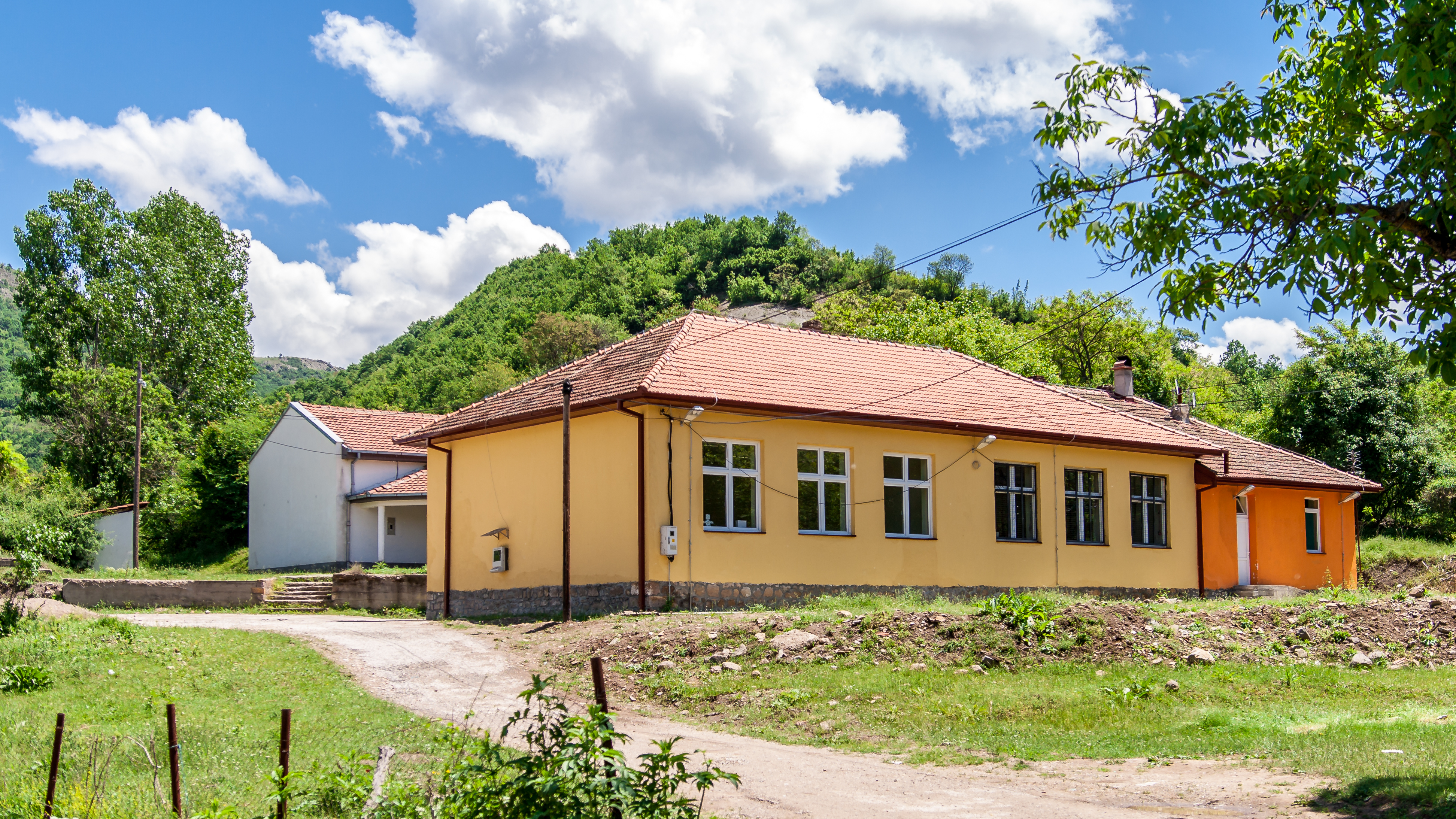 Primary school in the village Turalevo